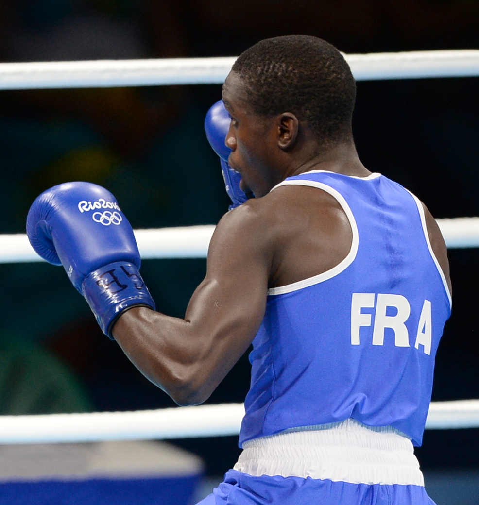 Boxing at the 2016 Summer Olympics, Baghirov vs Cissokho